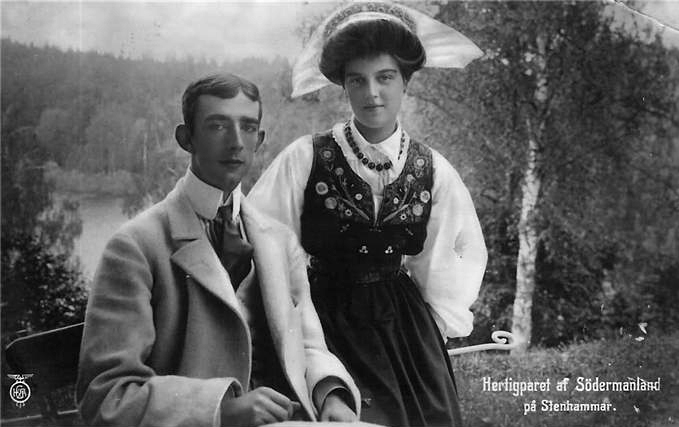 Prince Wilhelm of Sweden and his wife Grand Duchess Maria Pavlovna, Duke and Duchess of Södermanland.